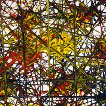 Patria. 61x45cm, Acrylic on canvas. Painting of Wilmer Herrison, Collection Fundacion Museos Nacionales, established in Fundamuseo Barquisimeto, Barquisimeto, Lara, Venezuela